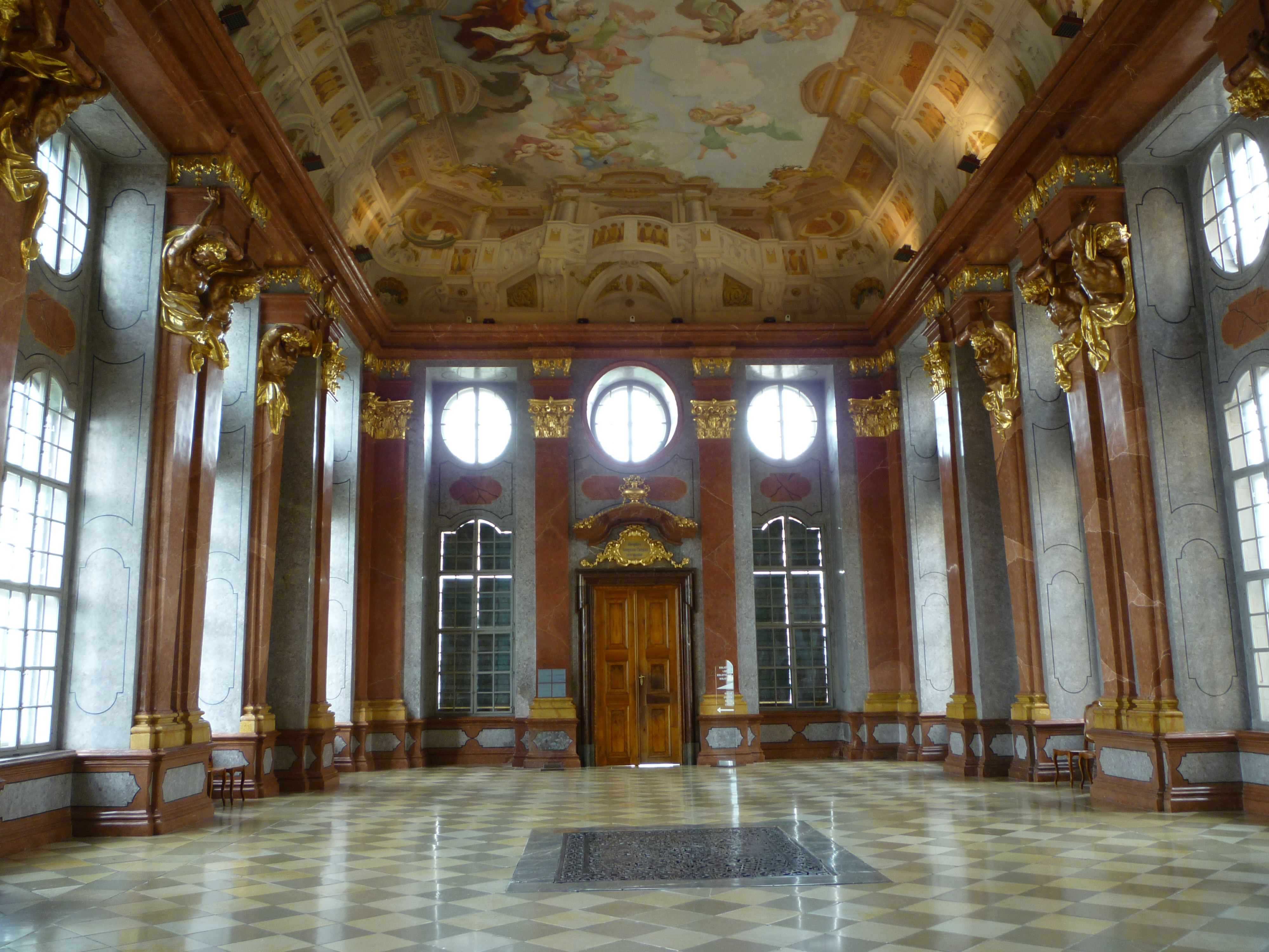 Marble Hall of Melk Abbey with the fresco by Paul Troger (1731)